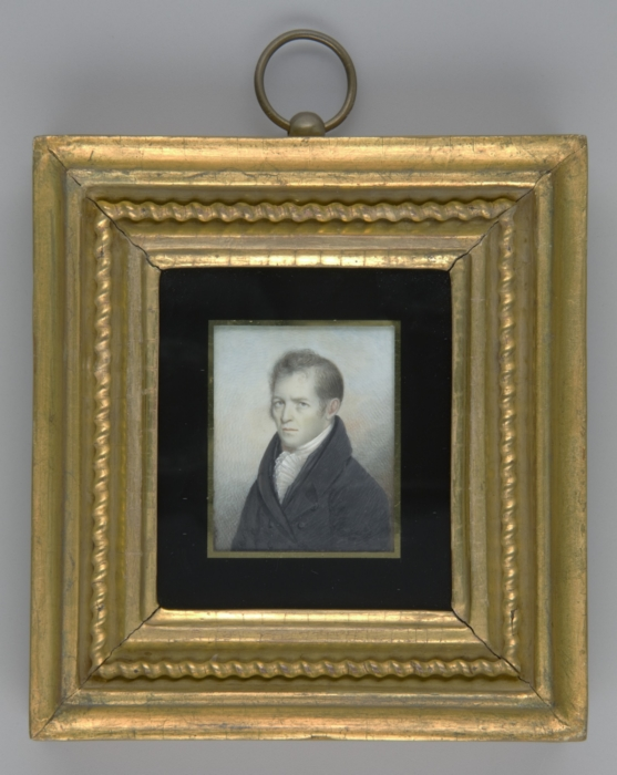 Portrait of Jonathan Leavitt, Yale College class of 1786, watercolor on ivory, by unknown artist. 2 7/8 in. x 2 3/8 in. Jonathan Leavitt was a lawyer and judge, and was married to Emilia Stiles, daughter of Ezra Stiles, president of Yale College. Courtesy of the Yale University Art Gallery, Yale University, New Haven, Conn.